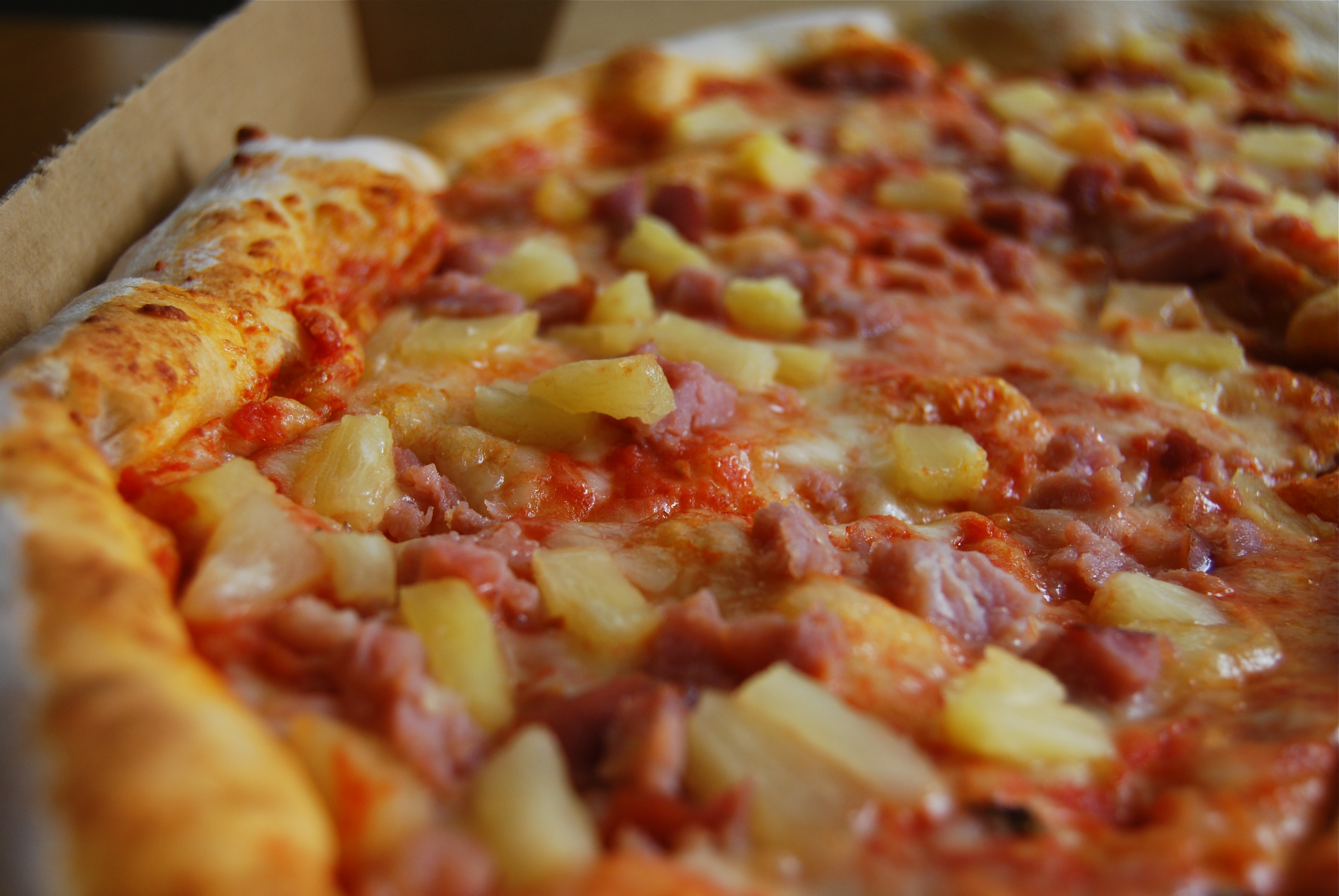 Pizza with pineapple: Boston's North End Pizza Bakery Oahu, Hawai'i